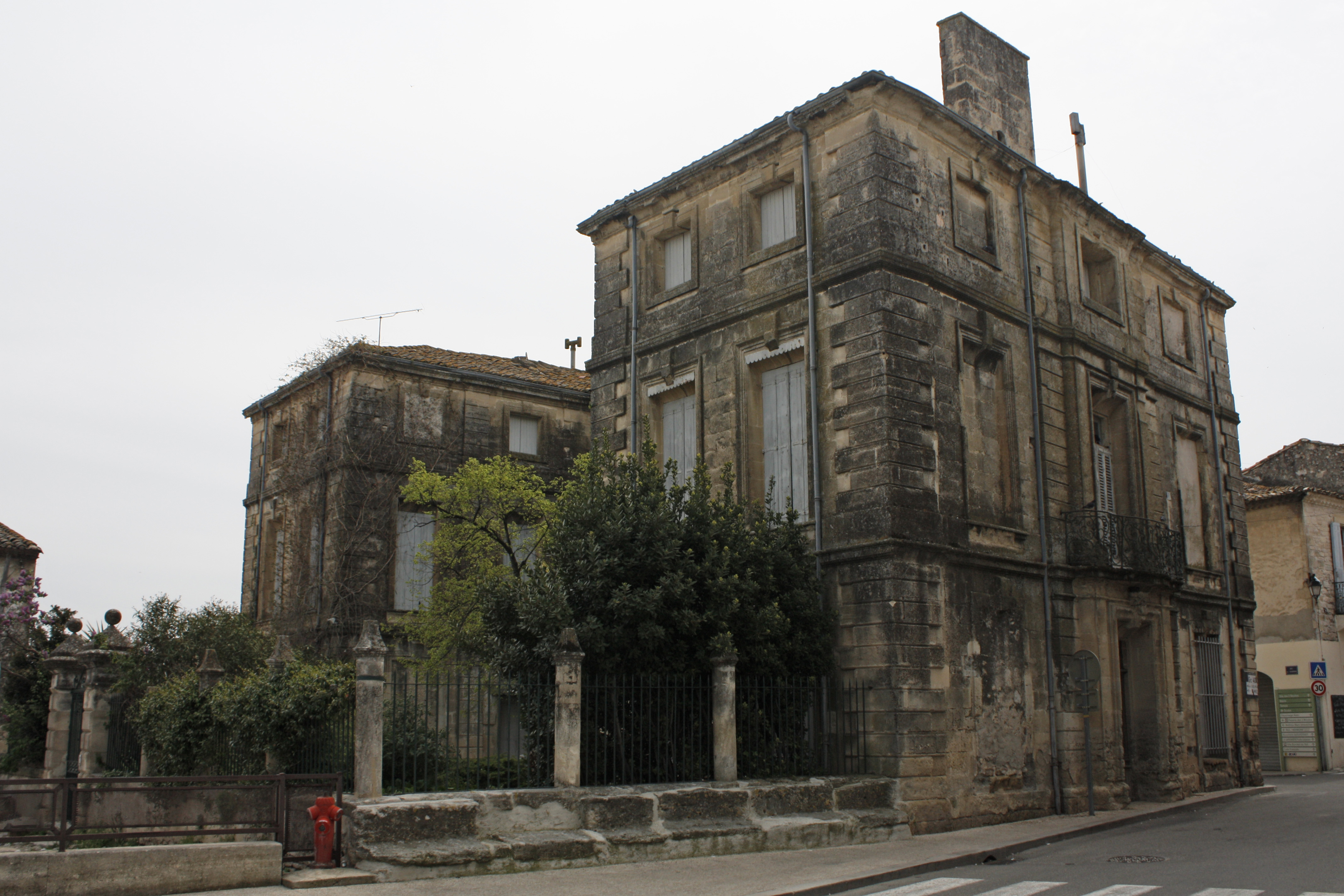 House and gardens dating from the last quarter of the 18th century, railing of the 19th century.